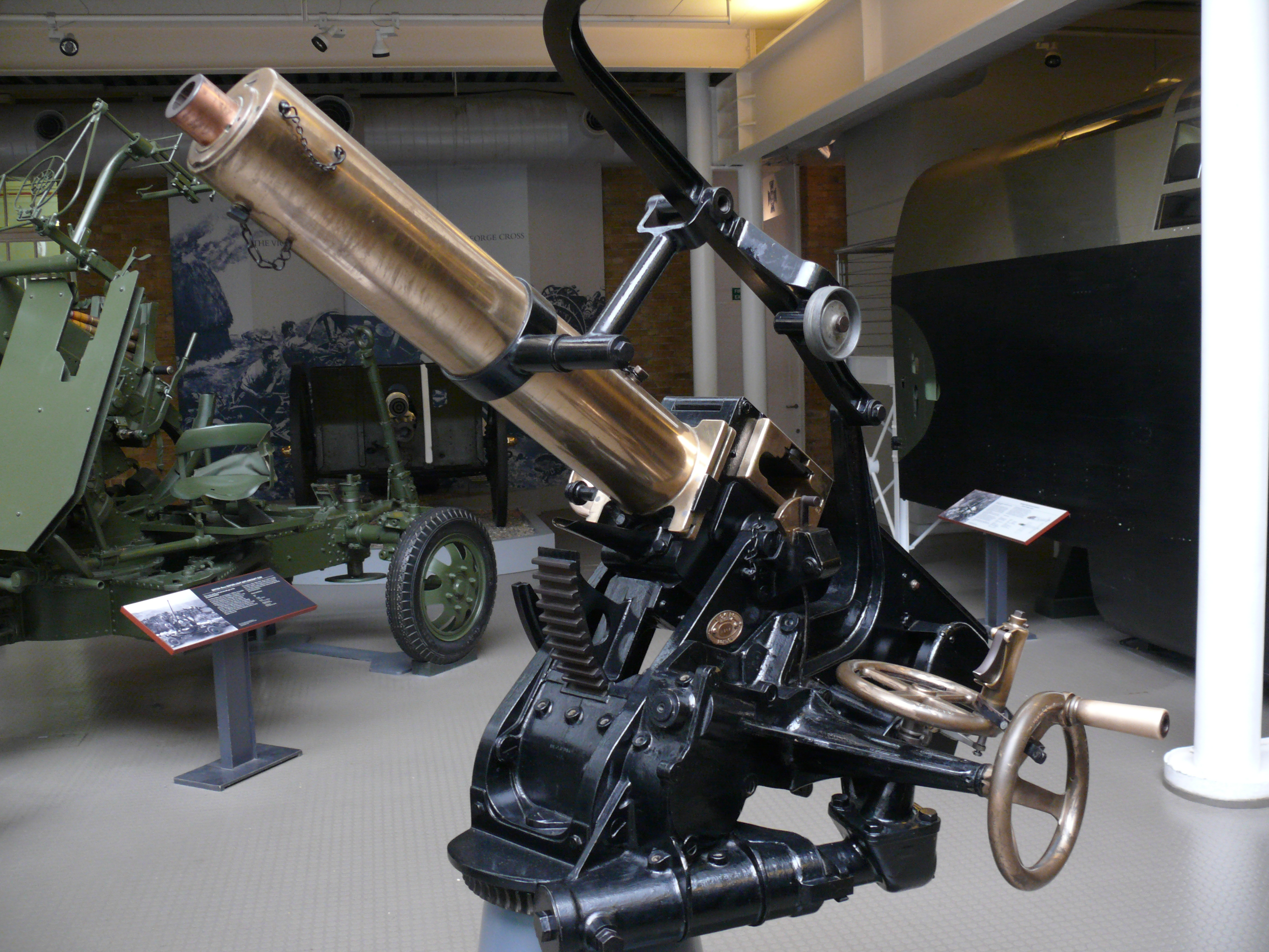 British QF 1 pounder Mk II 37 mm "pom-pom" gun, World War I era, on display at the Imperial War Museum, London. The identity plate states the gun was made in 1903.